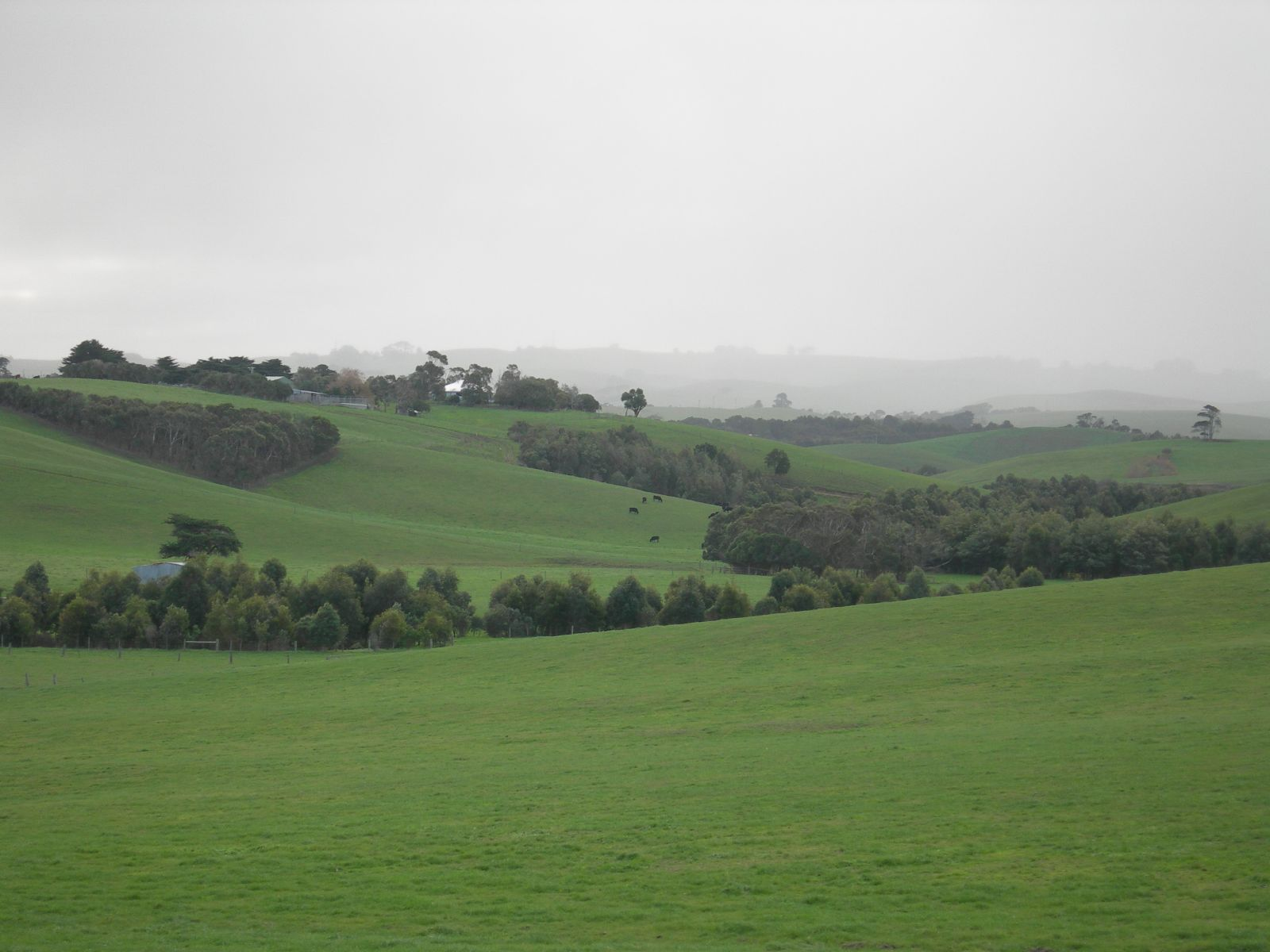 Views from Cricklewood near Kilcunda - Gippsland, Victoria, Australia